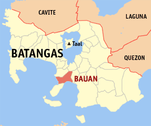 Map of Batangas showing the location of Bauan